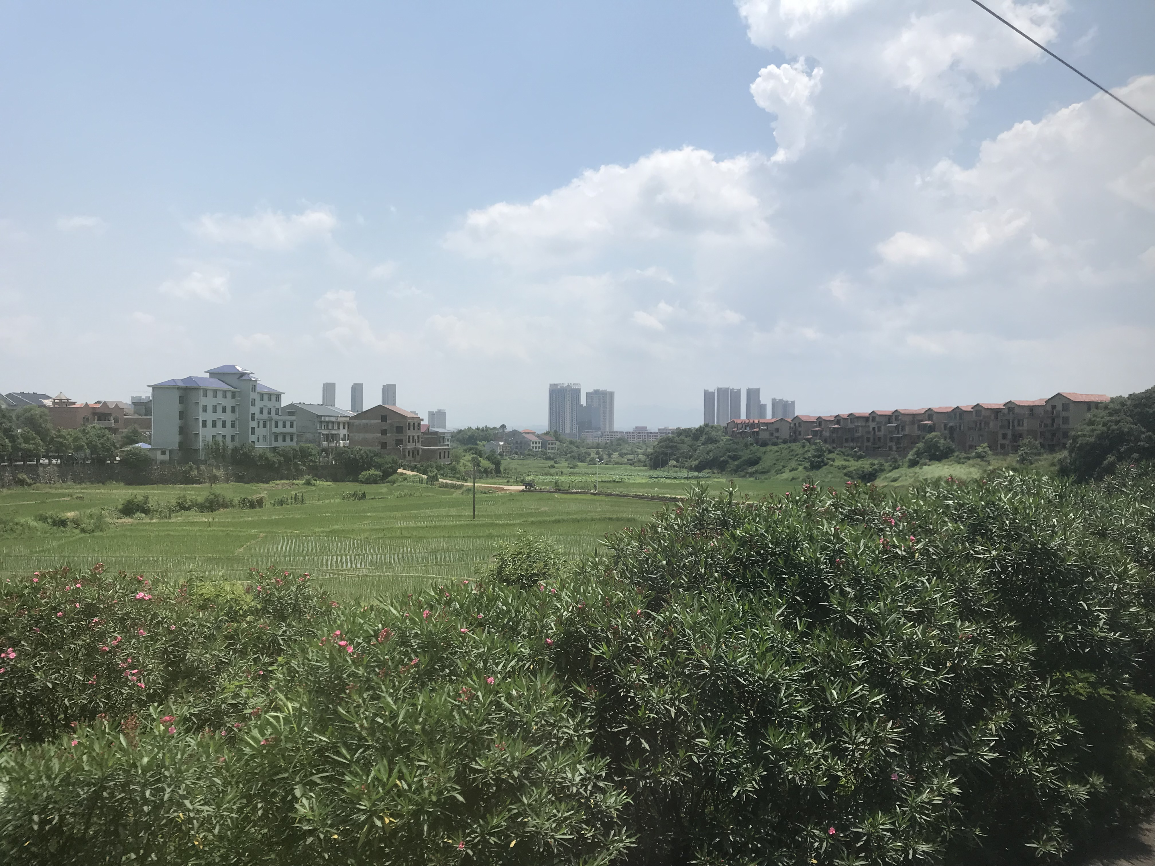 201906 Chaling County, Hubei